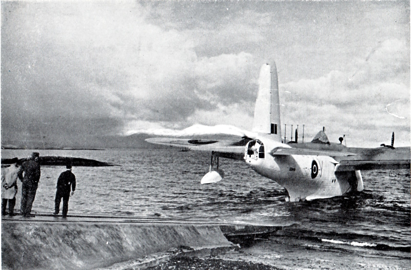 Norwegian air force during World War II, Sunderland being launched after maintenance.